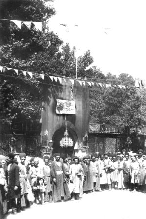 constitutional revolution bast in British Embassy